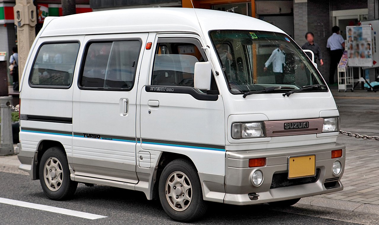 Suzuki Every 660 PS Turbo Aero-tune (M-DA51V, '90 03 - '90 11)